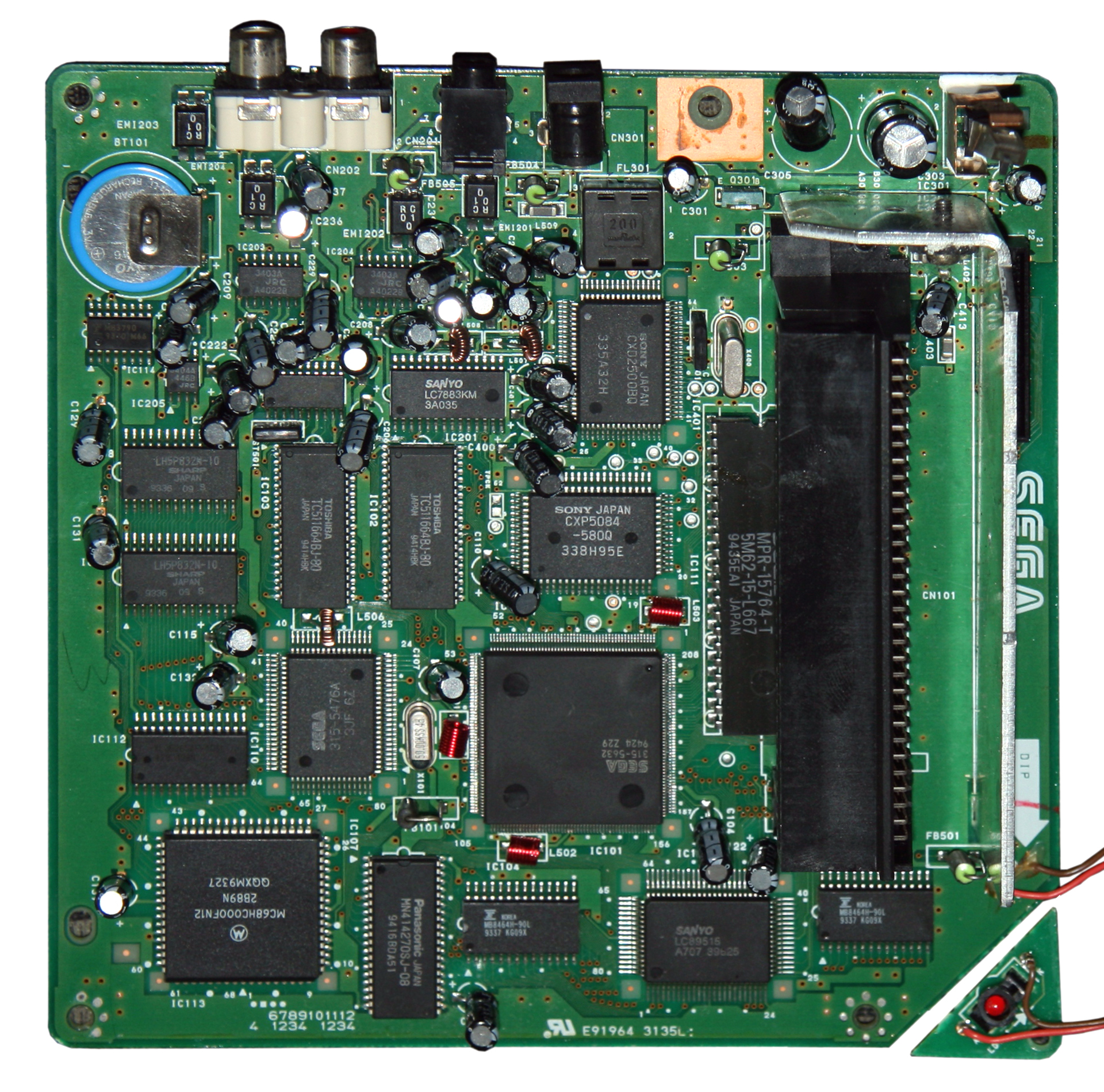 Sega CD motherboard Chips CPU = MC68HC000FN12 Graphics = Sega 315-5632 Audio = LC883KM CD-ROM = LC89515K MCU = CXP5084-580Q CD DSP = CXD2500BQ RAM = TC511664BJ-80 DRAM = MN414270SJ-08 ROM = MPR-15764-T SRAM = XLJ6265AF-10SL SRAM = LH5P832-10